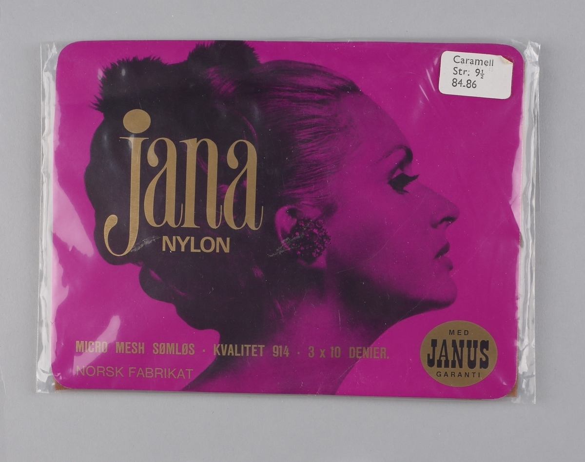 Seamless "Jana" nylon stockings produced by Janus at Espeland outside Bergen, Norway (object no. NTMT.00763, The Norwegian Knitting Industry Museum).